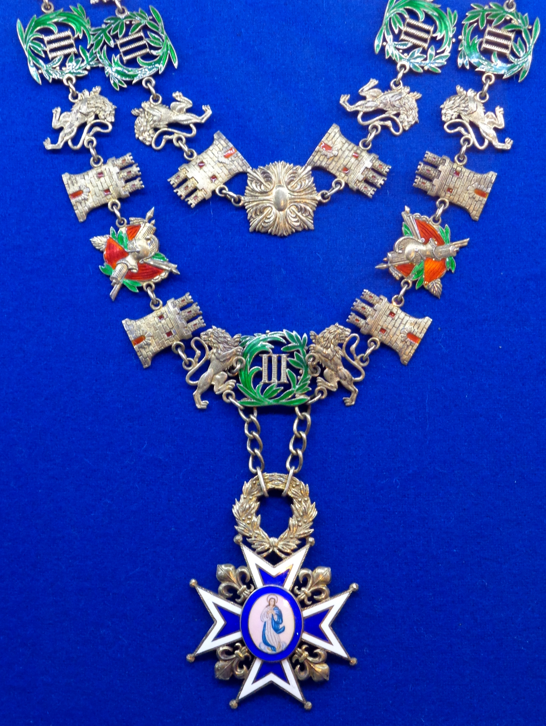 Order of Charles III, collar, 1960-1970. Spain. The exhibition of the Tallinn Museum of Orders of Knighthood, Estonia.